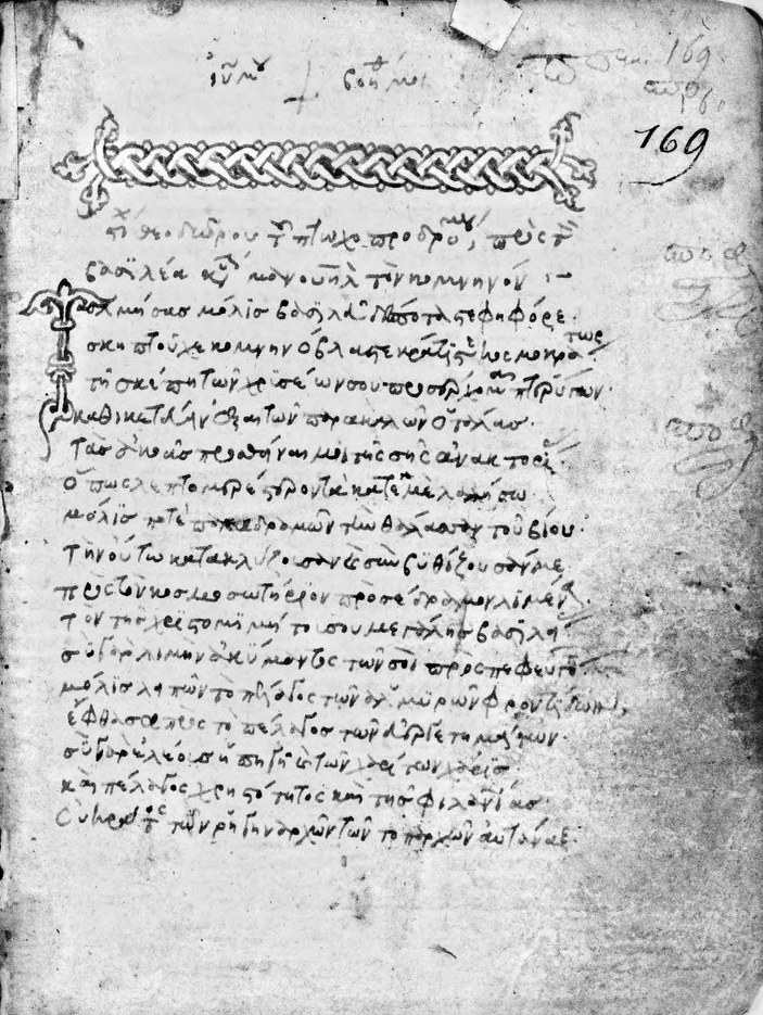 Opening of Ptochoprodromika poem 3. BNF MS suppl. grec 1034 f. 169r